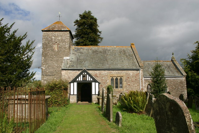 Penyclawdd Church This beautiful little church still serves the tiny population around it.